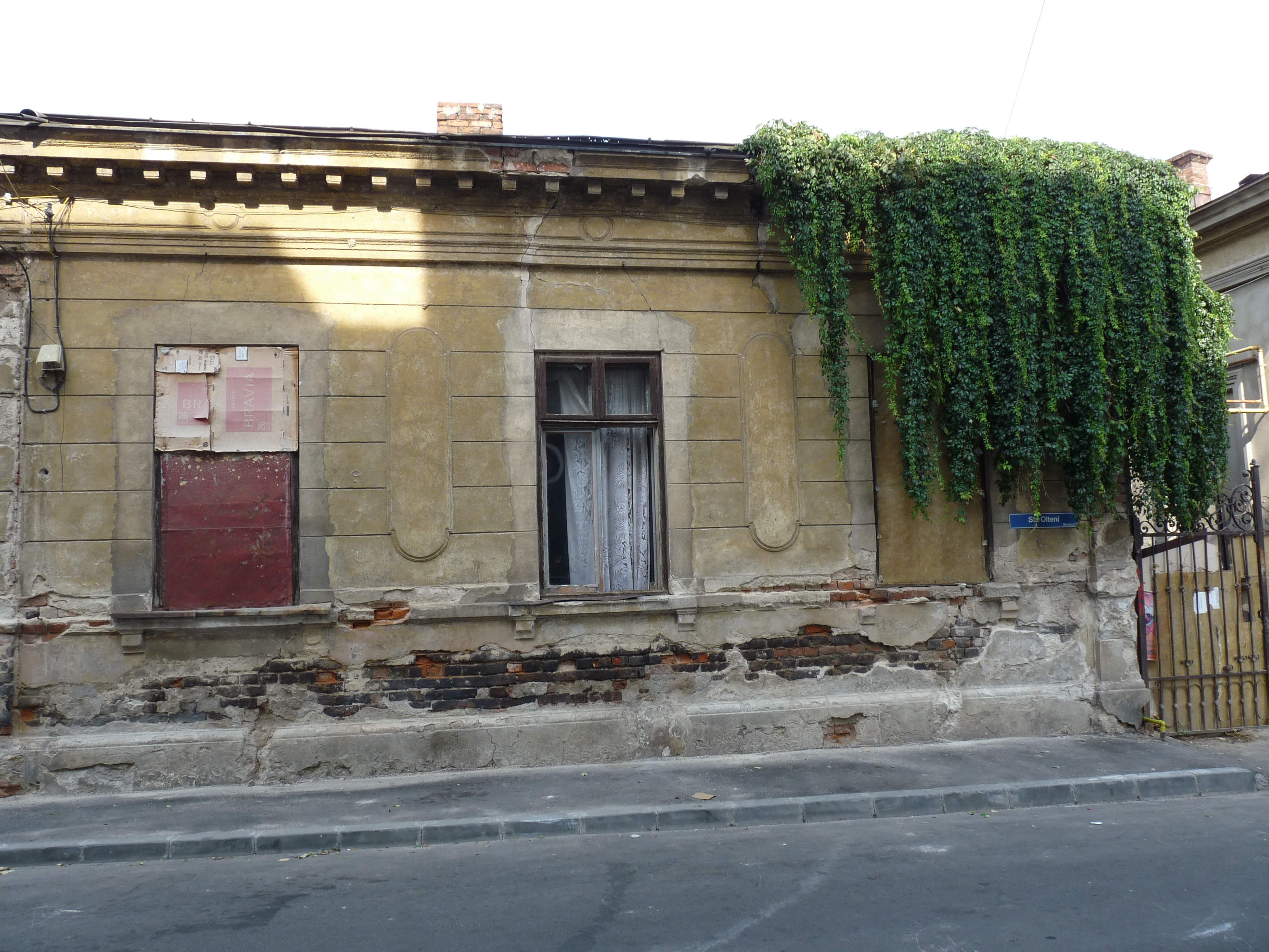 Historic building in Bucharest, Romania, Olteni street 9.